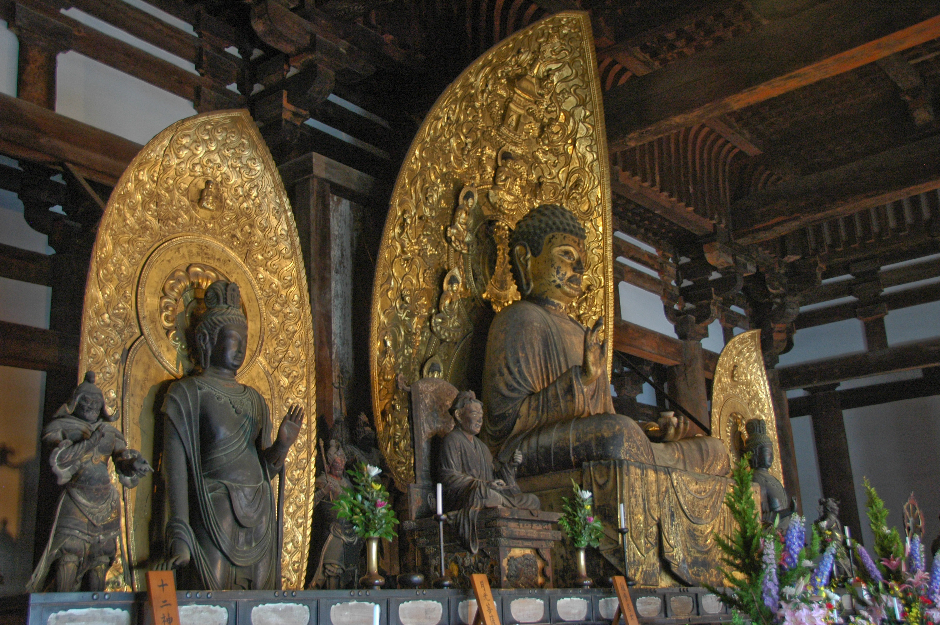 Inside of the Eastern Golden Hall (東金堂, tōkon-dō) of Kōfuku-ji in Nara, Japan. The central image, a sitting Yakushi Nyorai, is framed by two standing attendants: Nikkō and Gakkō Bosatsu. Together the three statues form a Yakushi Triad and are designated as Important Cultural Properties of Japan. The small sitting statue between Yakushi and his attendant is Yuima. The small standing statue on the left is one of the Twelve Heavenly Generals as is the statue between Yuima and Yakushi's attendant. The Twelve Heavenly Generals and Yuima are designated National Treasures of Japan.